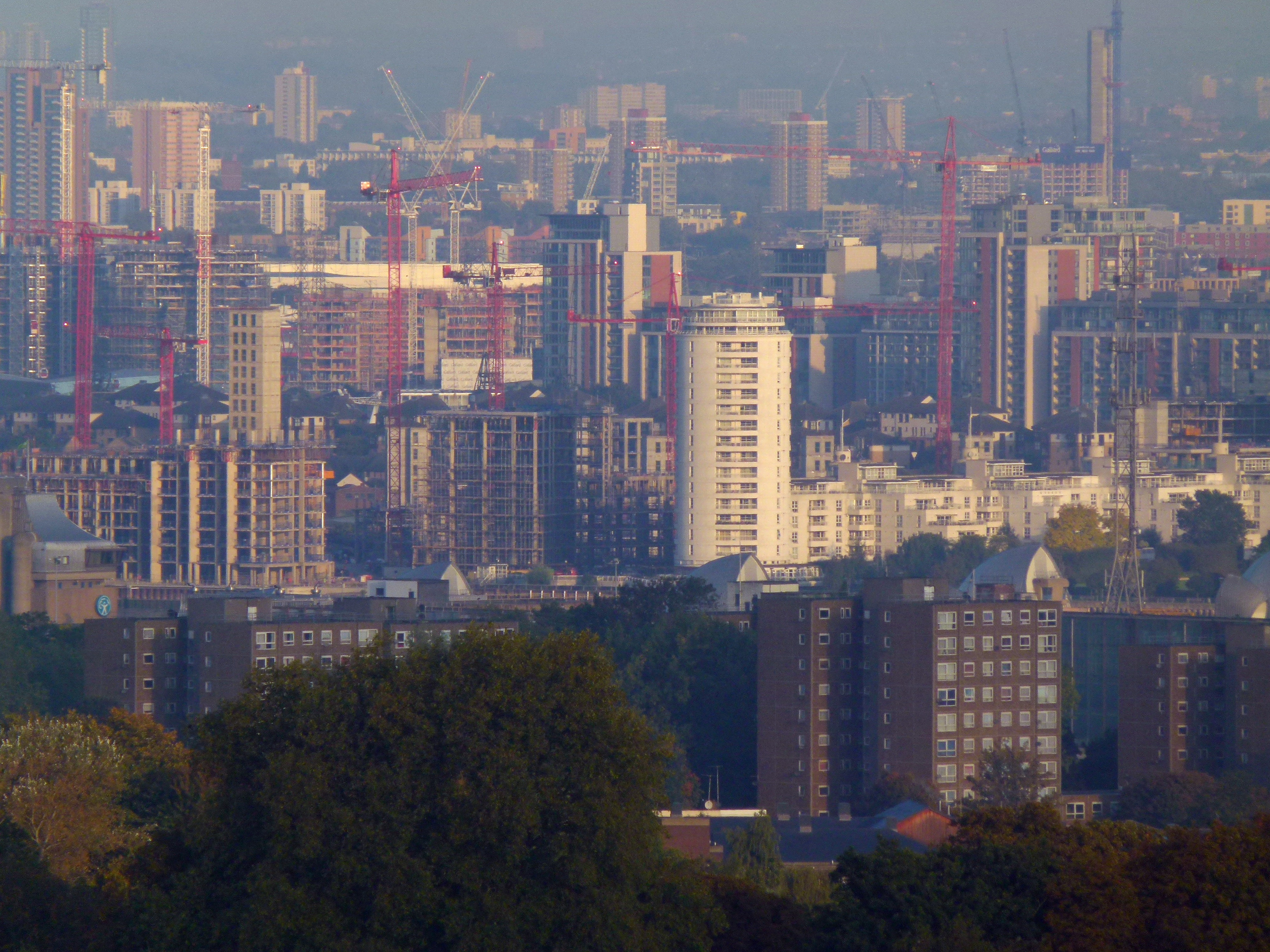 View from Shooters Hill, South East London, of various construction sites at Pontoon Dock-Silvertown. In the foreground the Morris Walk estate in Woolwich.